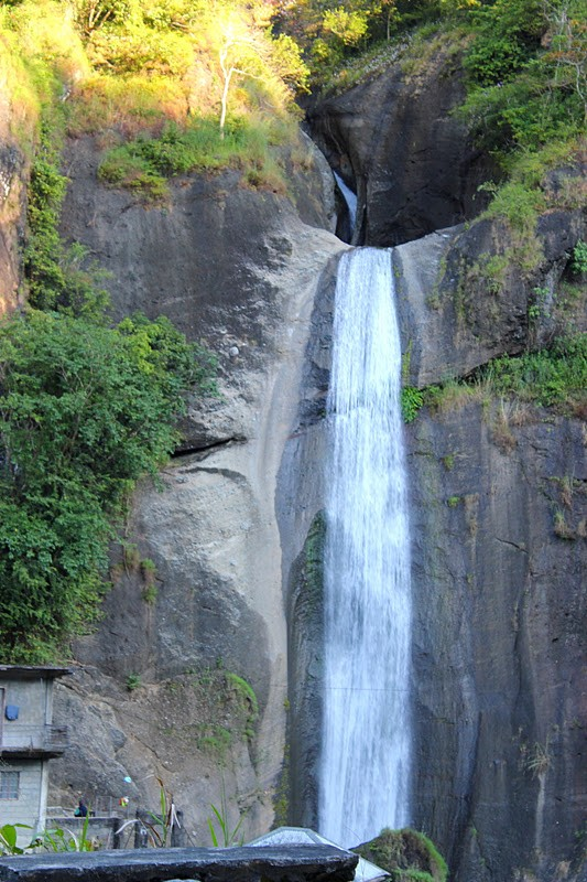 Bridal Veil Falls along the Bued River Canyon in the Province of Benguet in the Philippines